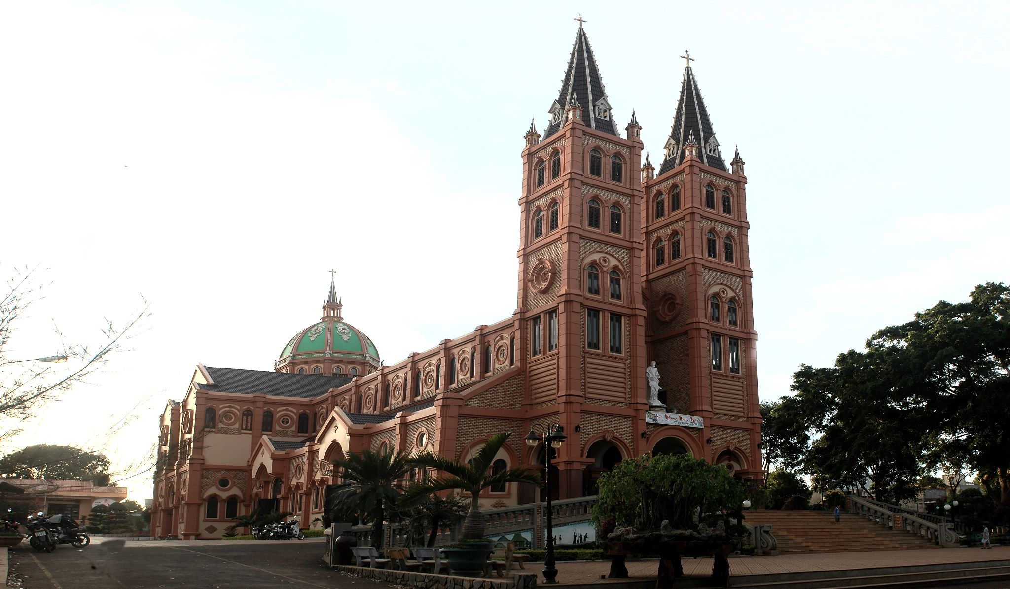 Nhà thờ to nhất tây nguyên